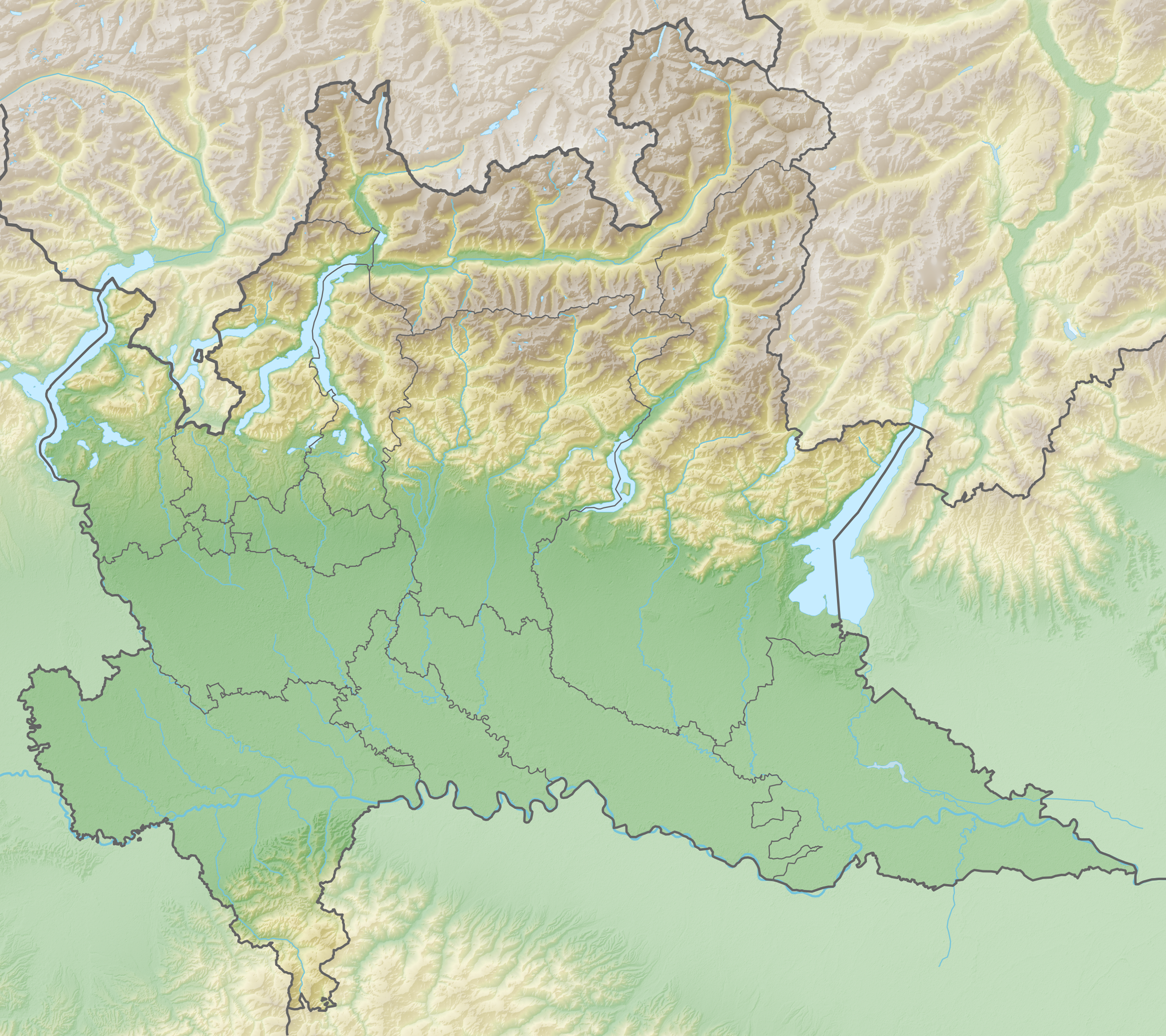 Location map of Lombardy region (Italy)